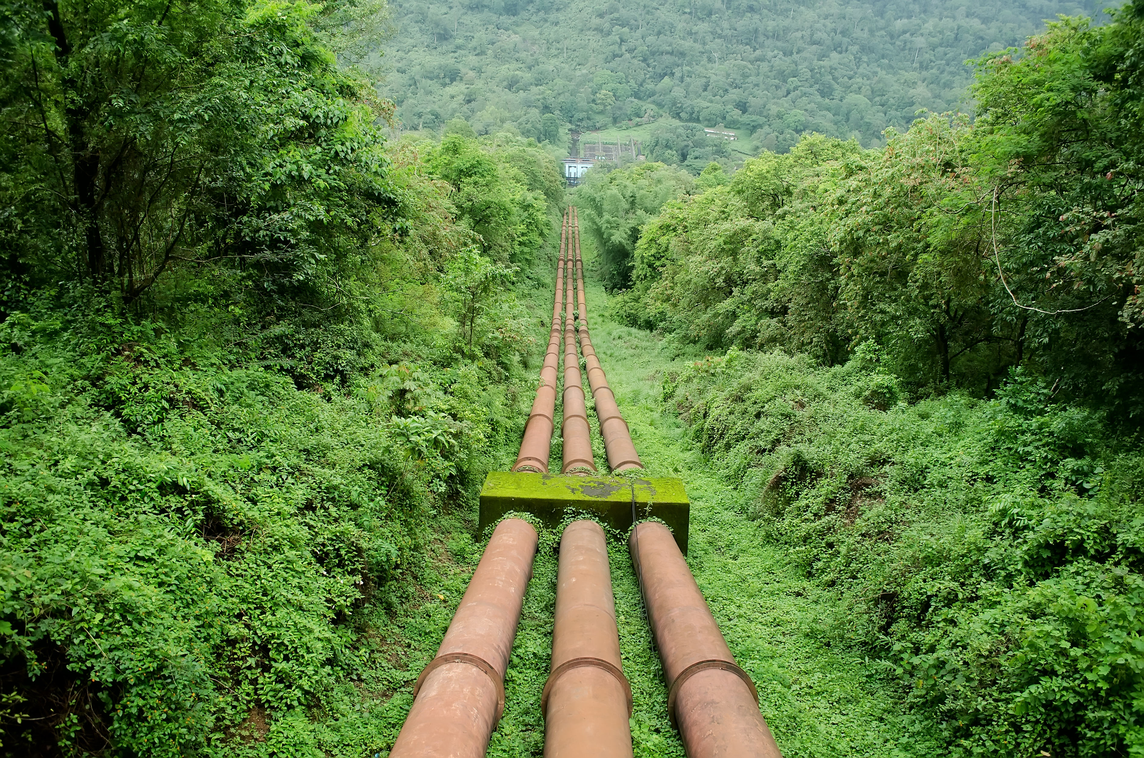 Penstock Malakkappara